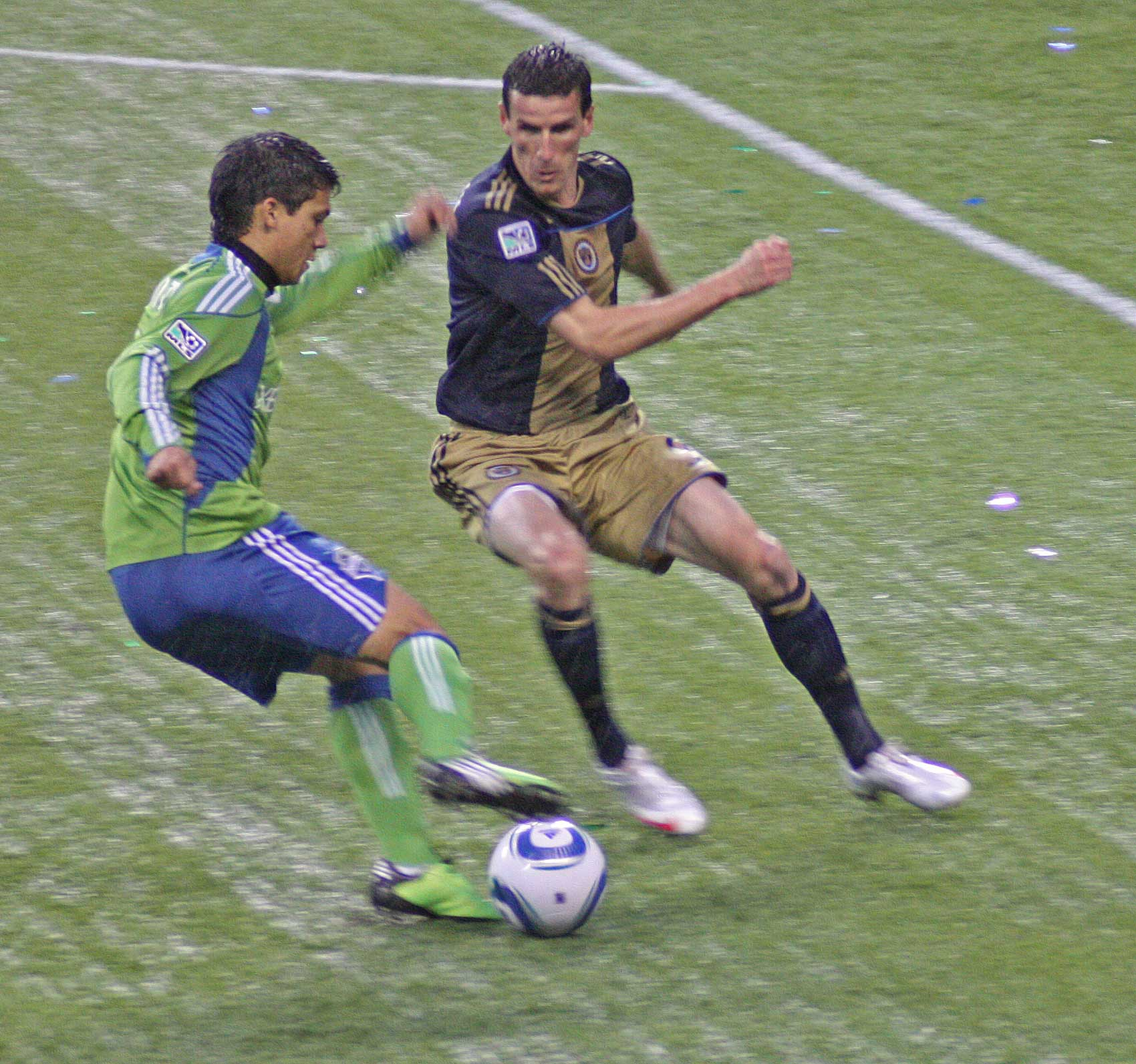 Fredy Montero of Seattle Sounders defended by Sébastien Le Toux of Philadelphia Union.